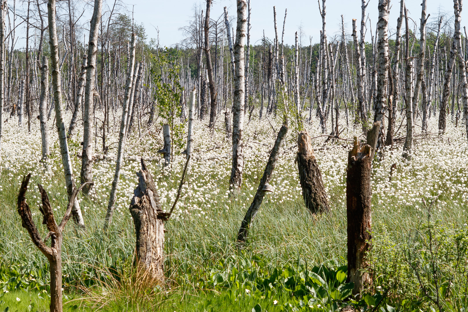 Jack's Swamp Nature Reserve – hare's-tail cottongrass Eriophorum vaginatum. The bog arum 'Calla palustris' (leaves) in the foreground. Wesoła, Warsaw, Poland. This is a photography of Natura 2000 protected area with ID PLH140034